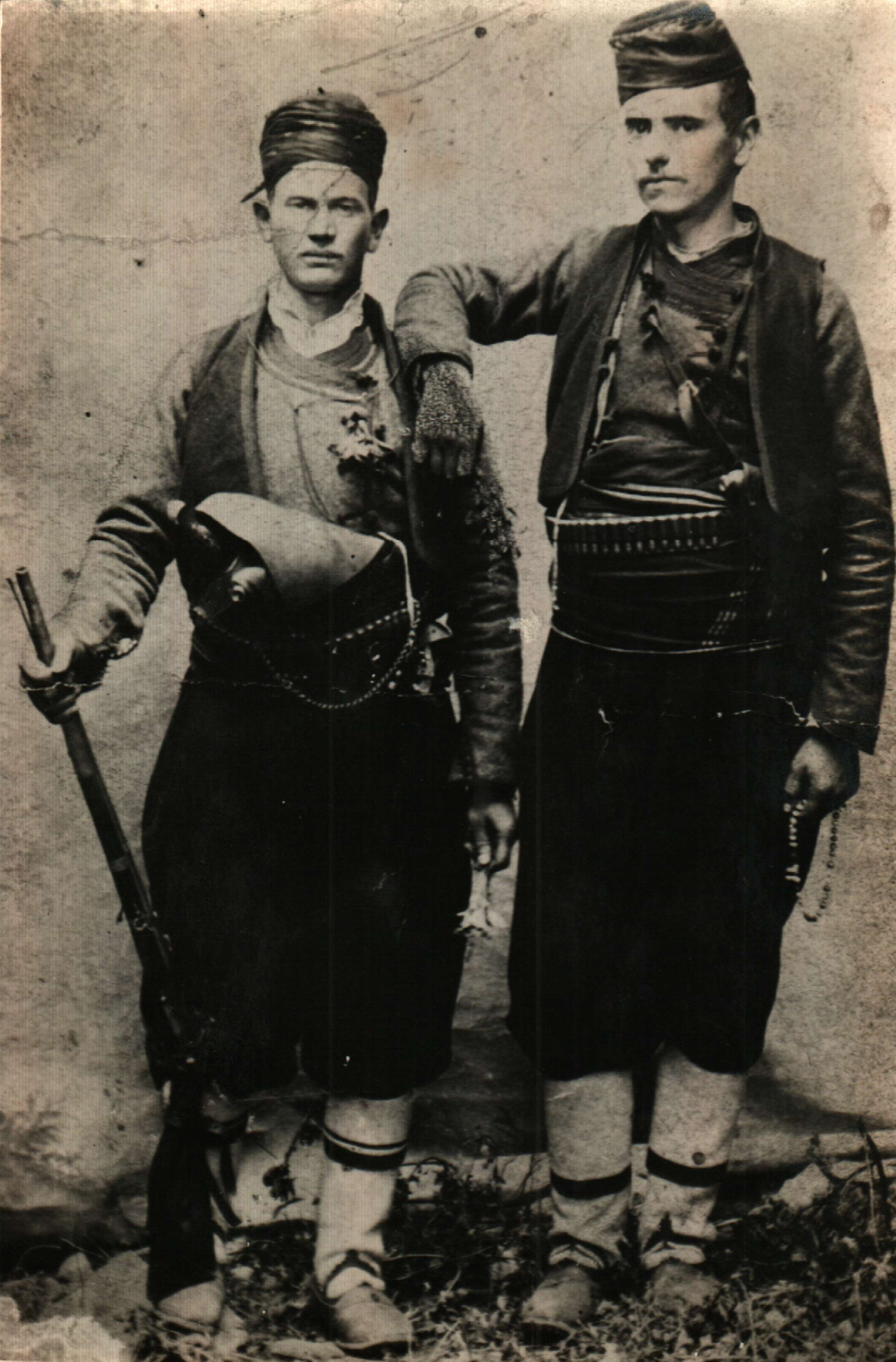 National costume of Bulgaria. Chokmanovo